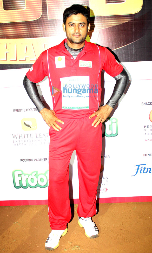 Manav Gohil at Zee Rishtey Awards 2010